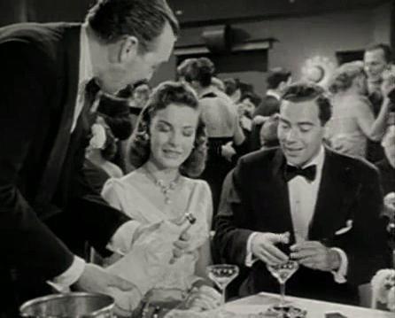 Jean Peters and Elliott Reid (right) in Vicki (1953) - trailer (cropped screenshot)